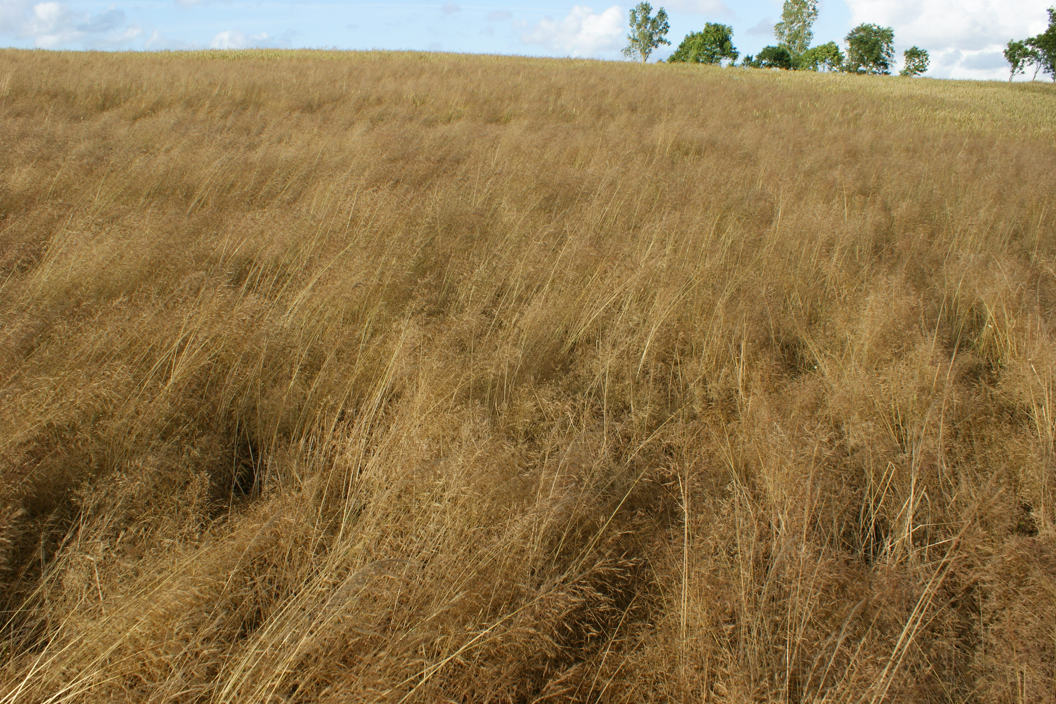 Apera spica-venti